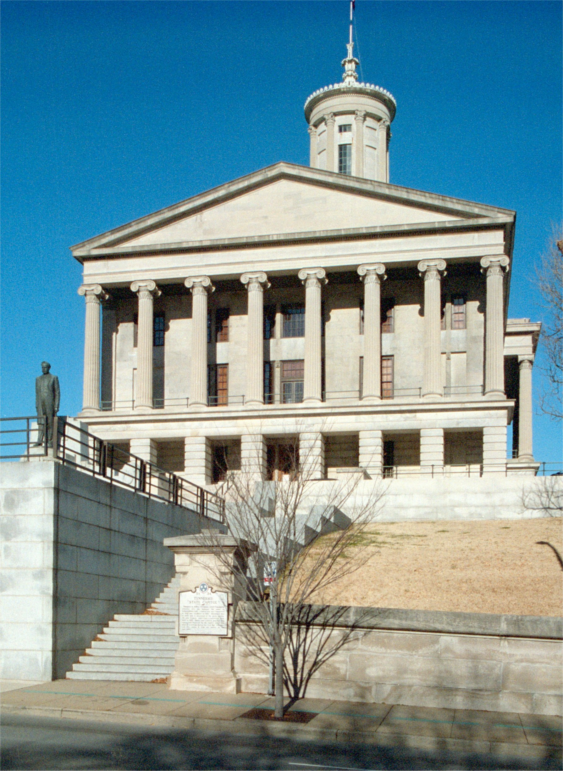 Nashville TN state capitol building. Photo taken by Stephen Hall, New Jersey. December 28, 2003. Scanned from film.